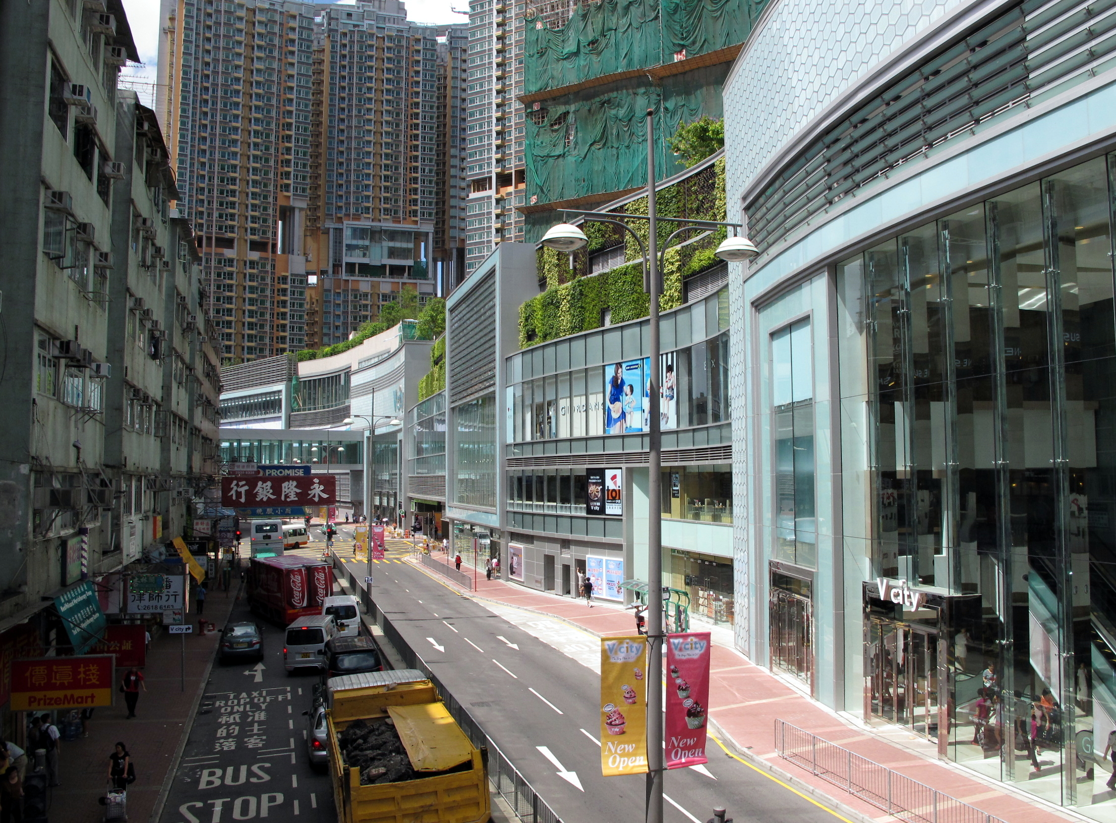 Tuen Mun V City Outside View